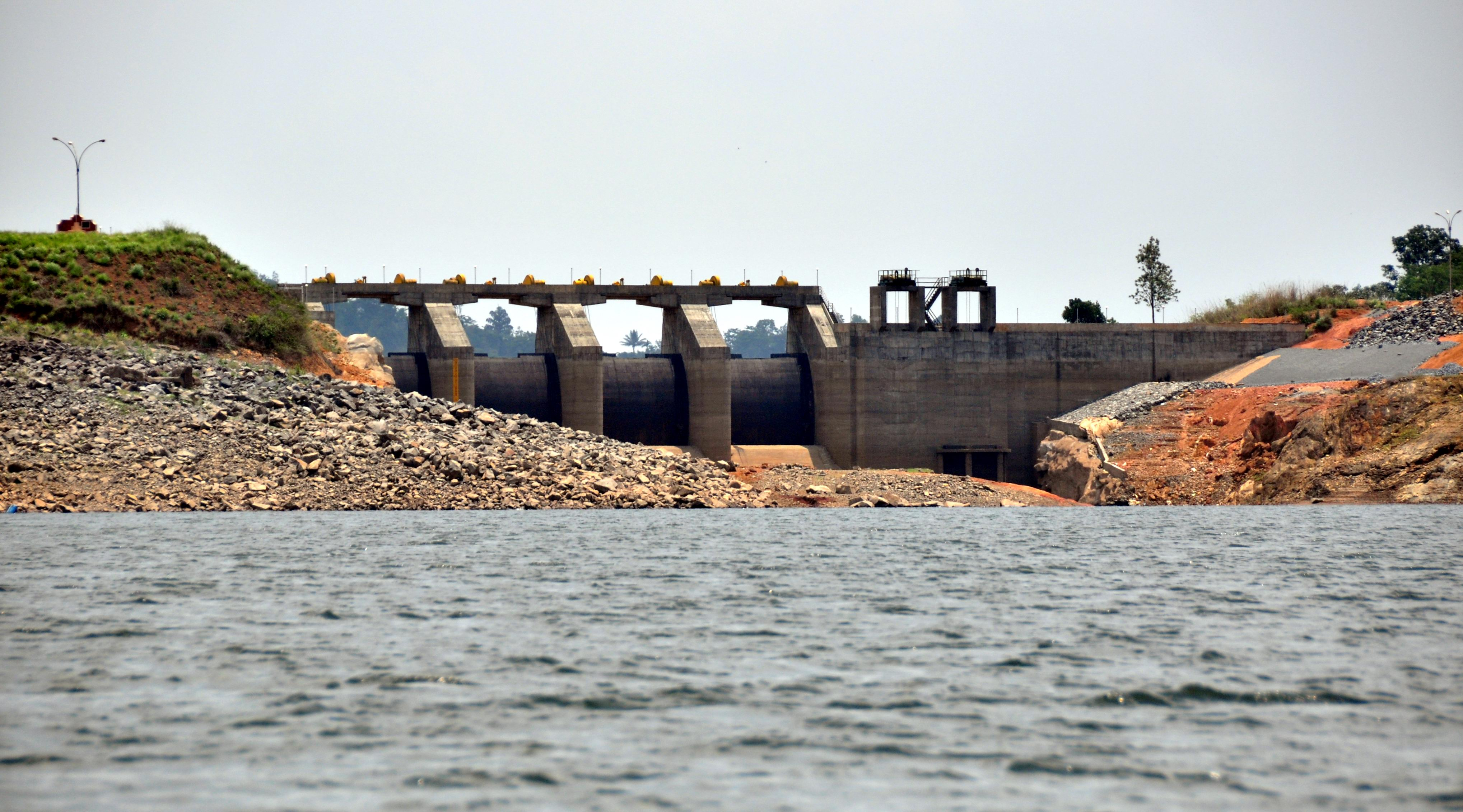 Banasura_sagar_Dam in Wayanad District of Kerala.